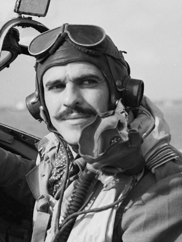 Detail from the photograph: Squadron Leader L C Wade, commanding No. 145 Squadron, sitting in the cockpit of his Supermarine Spitfire HF Mk VIII at Triolo landing ground, south of San Severo in Italy, 12 November 1943. Squadron Leader L C Wade, Officer Commanding No. 145 Squadron RAF, sitting in the cockpit of his Supermarine Spitfire HF Mark VIII at Triolo landing ground, south of San Severo, Italy, shortly before the end of his second tour of operations in the Mediterranean area, where he had become the top-scoring fighter pilot with 22 and 2 shared enemy aircraft destroyed. He was promoted Wing Commander and joined the staff at Headquarters, Desert Air Force, but was killed on 12 January 1944 in a flying accident at Foggia.